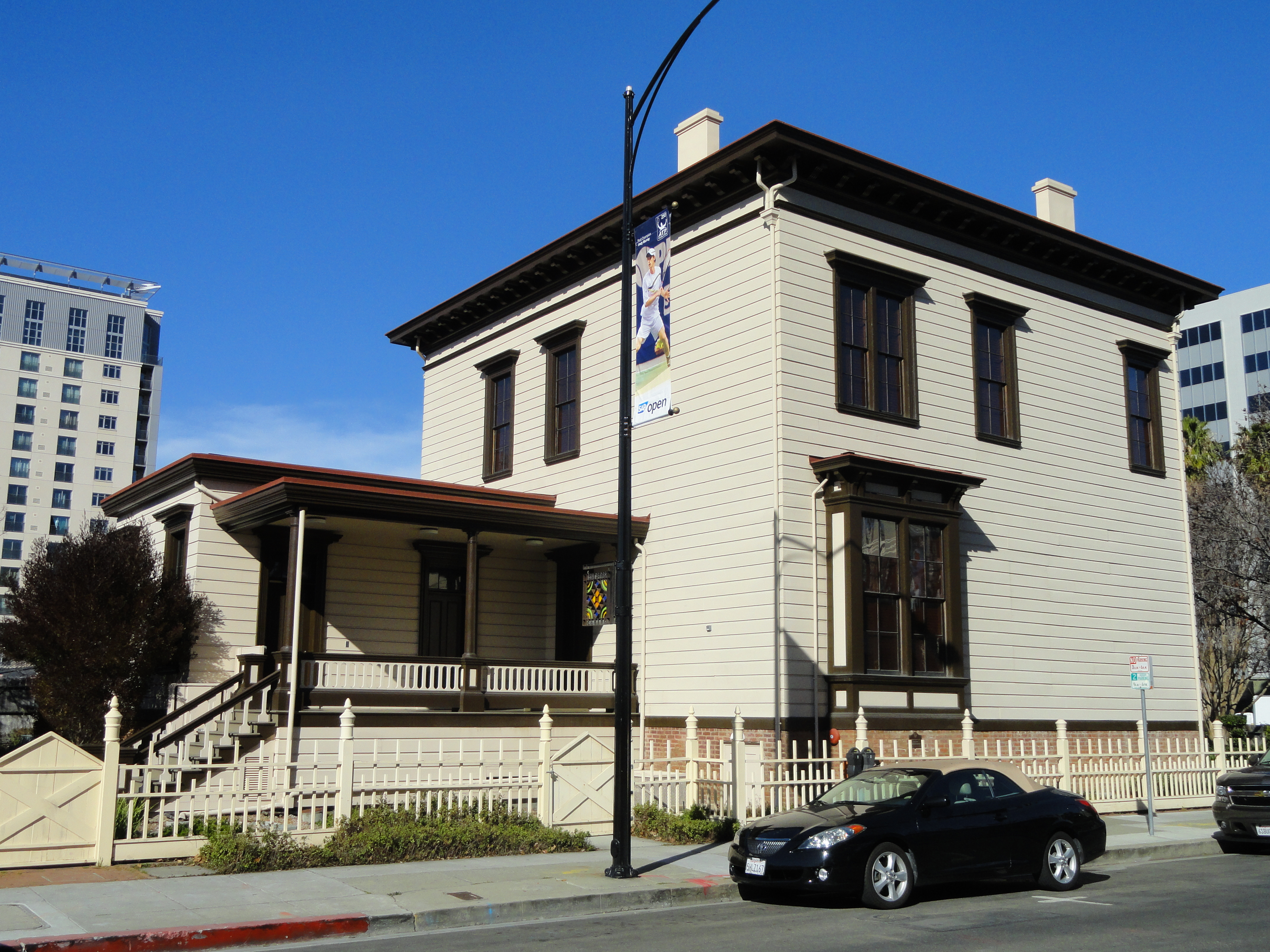 Thomas Fallon house, San Jose, California, USA.